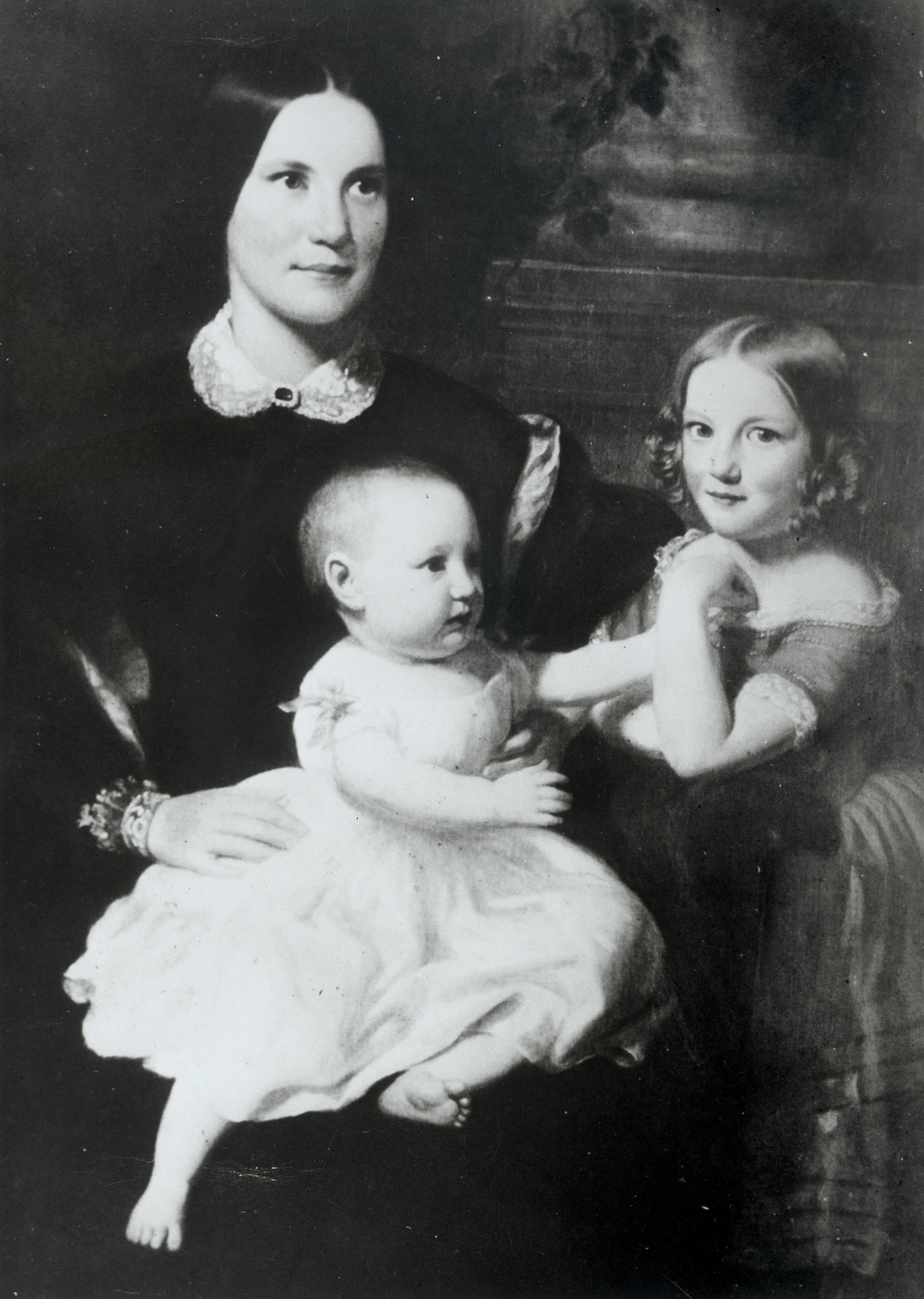 Title: Mrs. Henry Blow (Minerva Grimsley Blow) with daughter Susan (born 1843) and baby (probably Ella, born 1848).